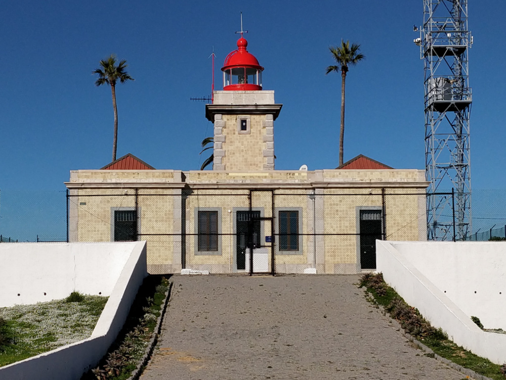 View of the Ponta da Piedade lighthouse near Lagos on the Algarve in Portugal